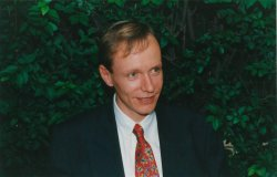 Photo of Patrice Gueniffey